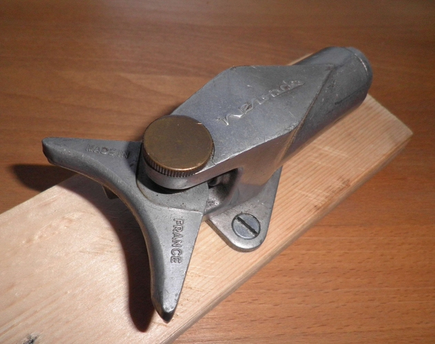 A Look Nevada binding, from the era when it would be used with a separate cable binding for holding the heel. This is a dual-pivot design, the secondary pivot is below the bronze knob, the primary pivot is not as easily visible below the binding body. From the extensive collection of William Talbot.